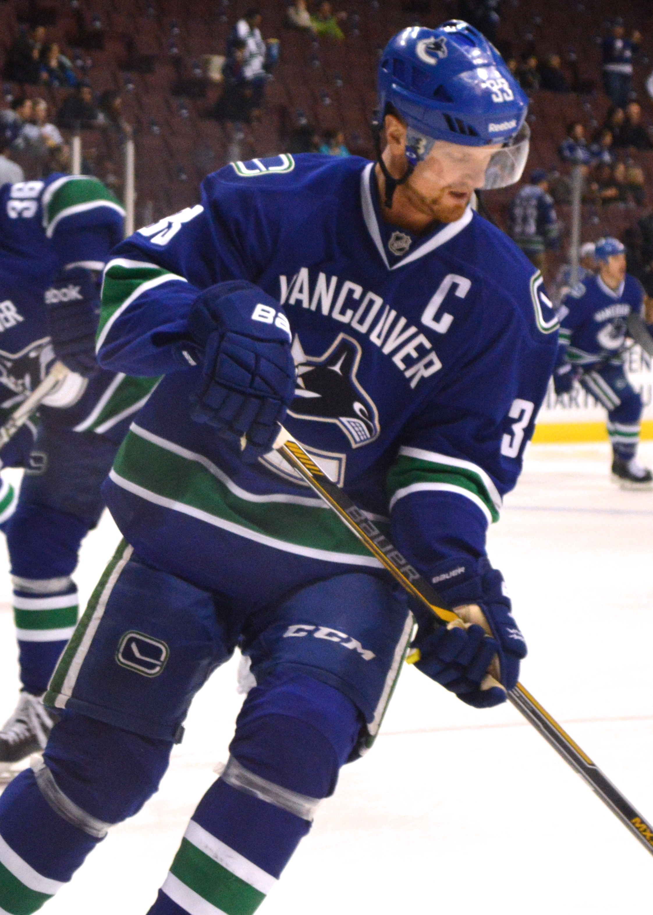 Vancouver Canucks centre and captain Henrik Sedin during warm-up prior to a game against the Winnipeg Jets at Rogers Arena on February 3, 2015.